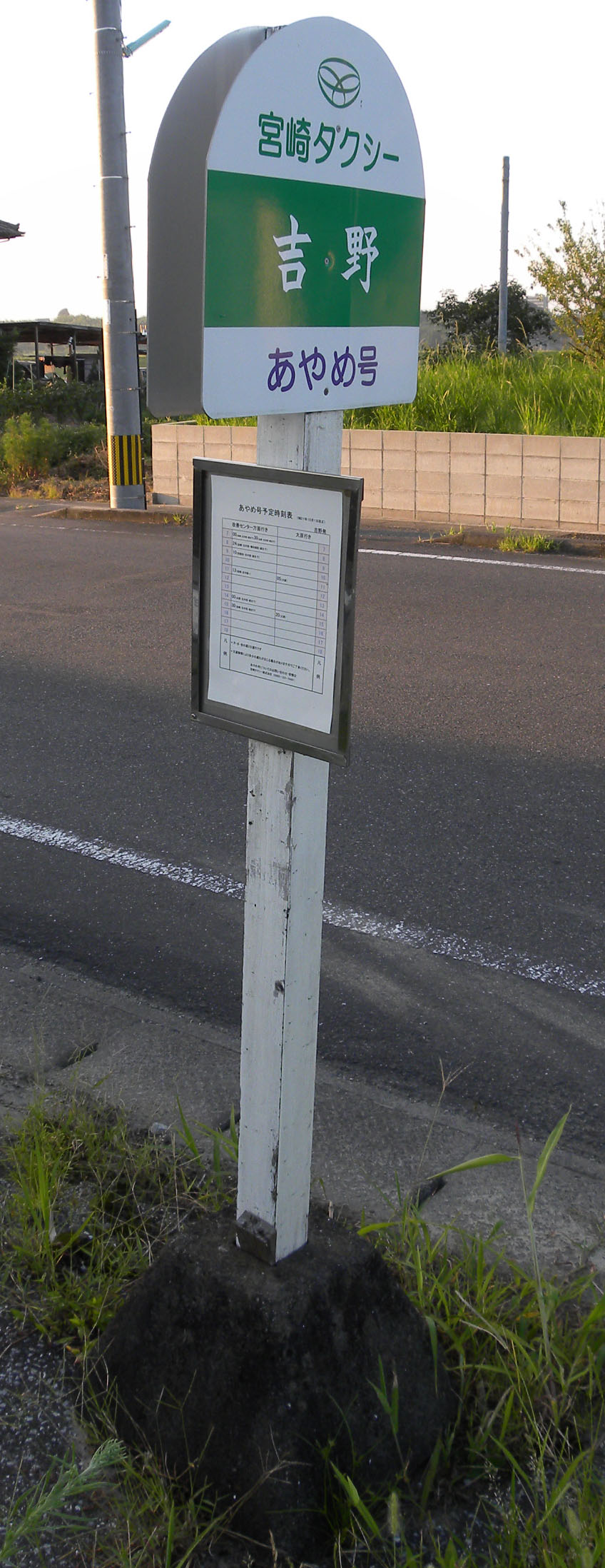 Miyazaki City North District (Kita-chiku) Community Bus Yoshino Bus Stop